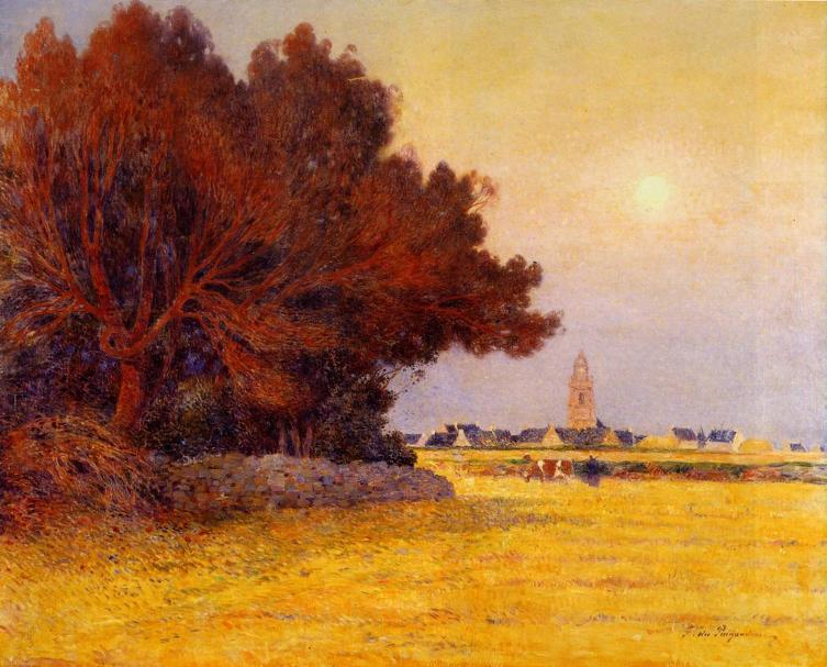 Oil painting reproduction of Ferdinand du Puigaudeau.